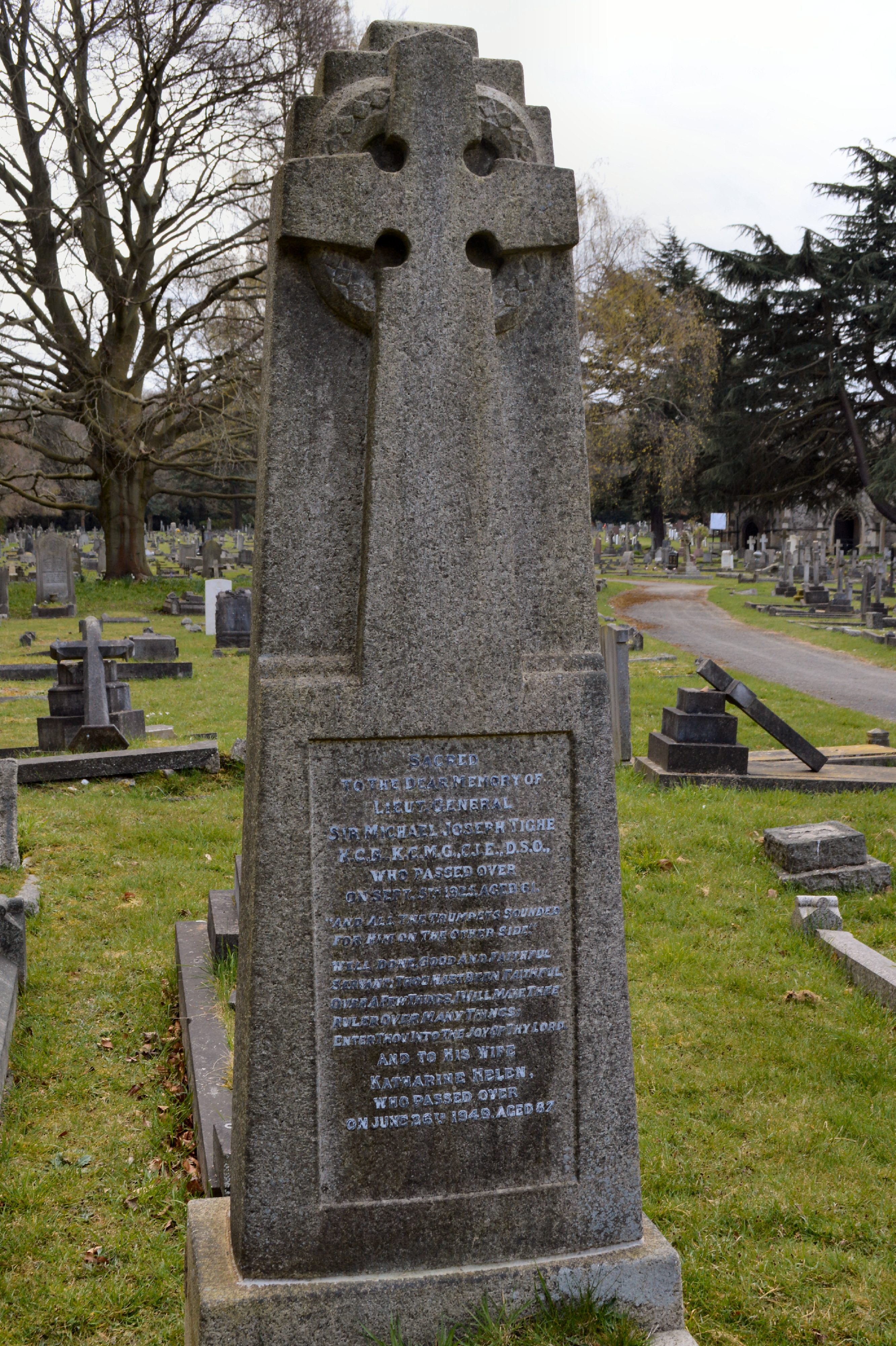 East Sheen Cemetery, Sir Michael Joseph Tighe grave